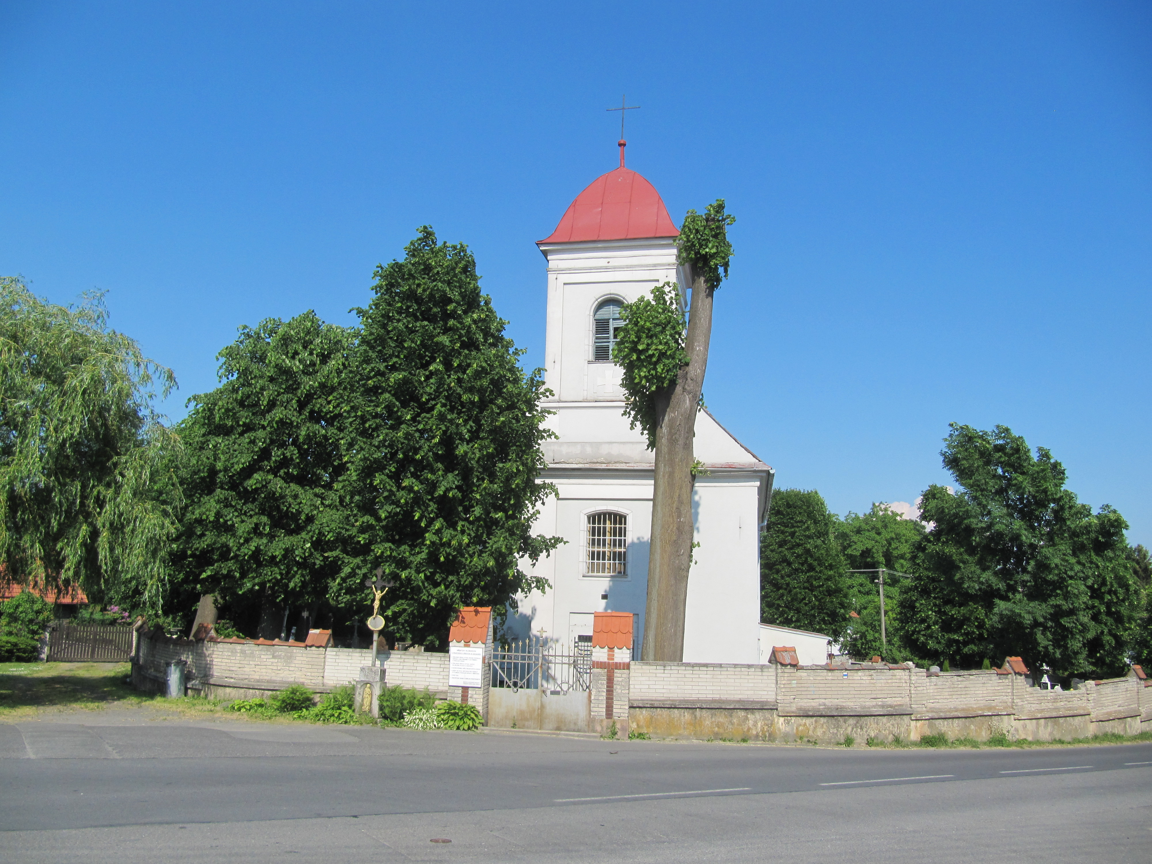 Vítkov, Opava District, Czech Republic, part Klokočov.